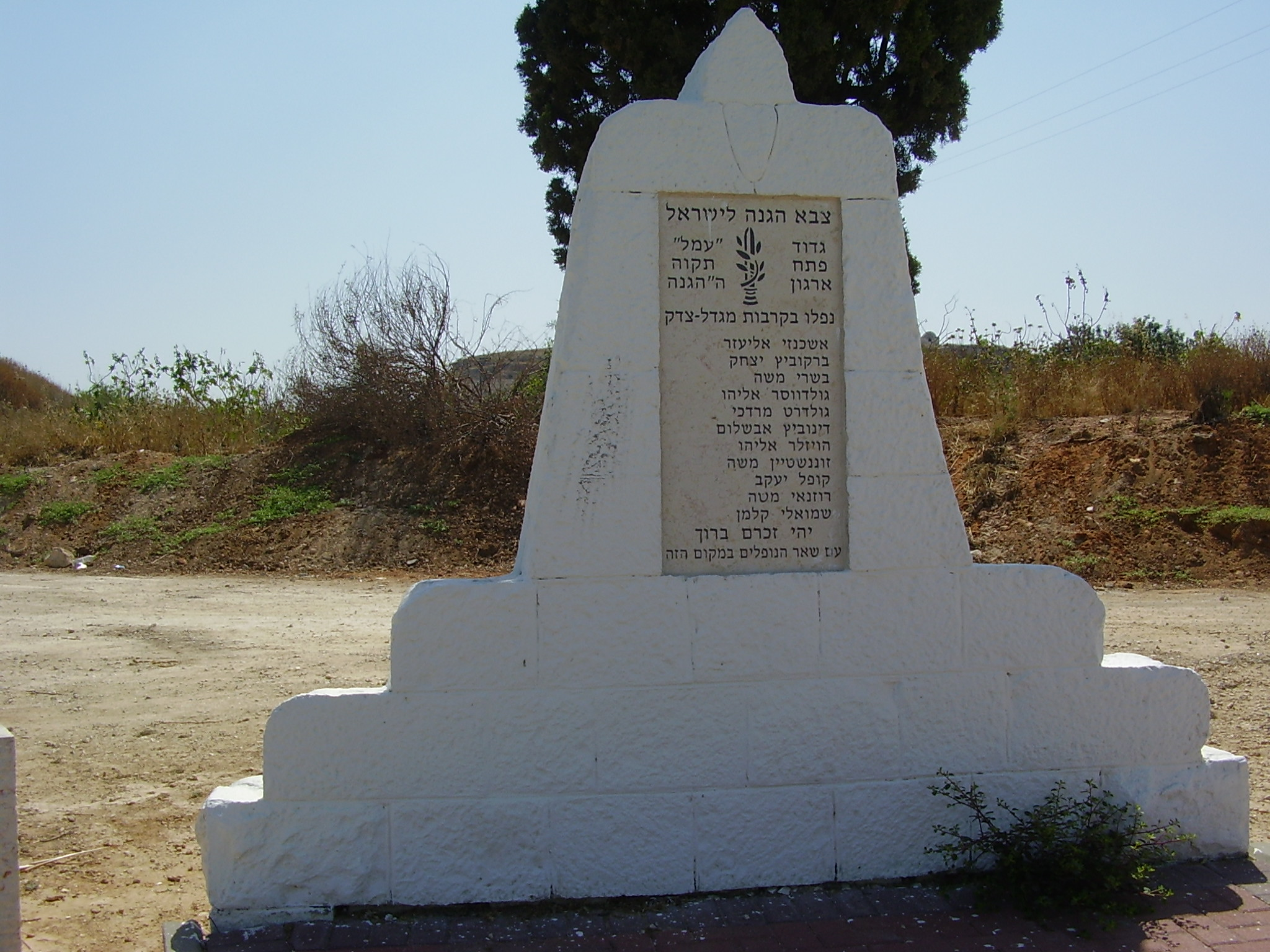 war memorial in migdal afek (migdal zedek), israel אנדרטה לנופלים בכיבוש מגדל אפק (צדק) במלחמת העצמאות